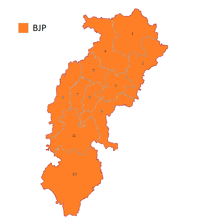 Seat Sharing of NDA in Chhattisgarh Colour Coded